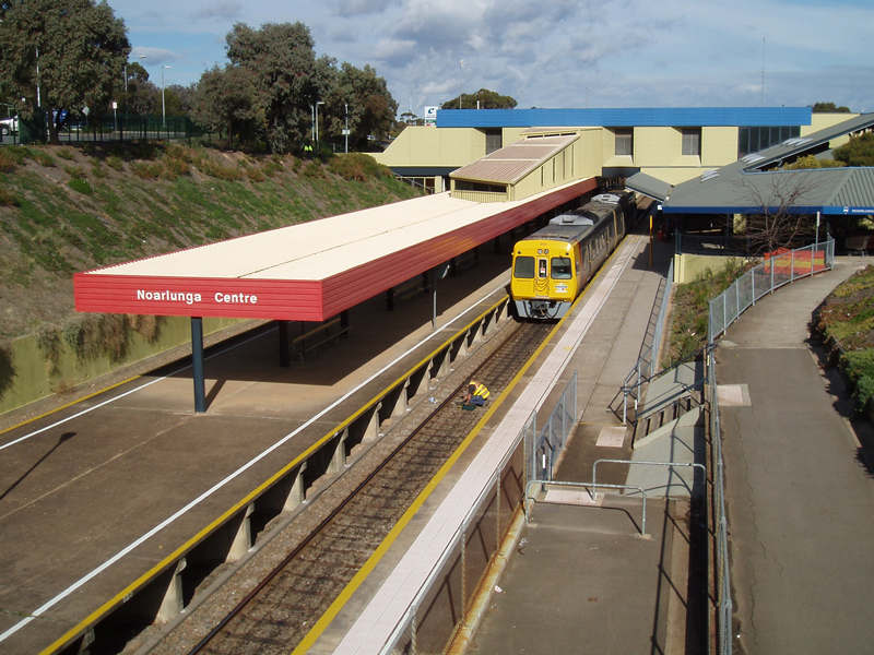 Rail platforms at Noarlunga Centre Interchange in the southern suburbs of Adelaide, South Australia. A TransAdelaide railcar prepares to depart with a mid-day train to Adelaide in June 2006.